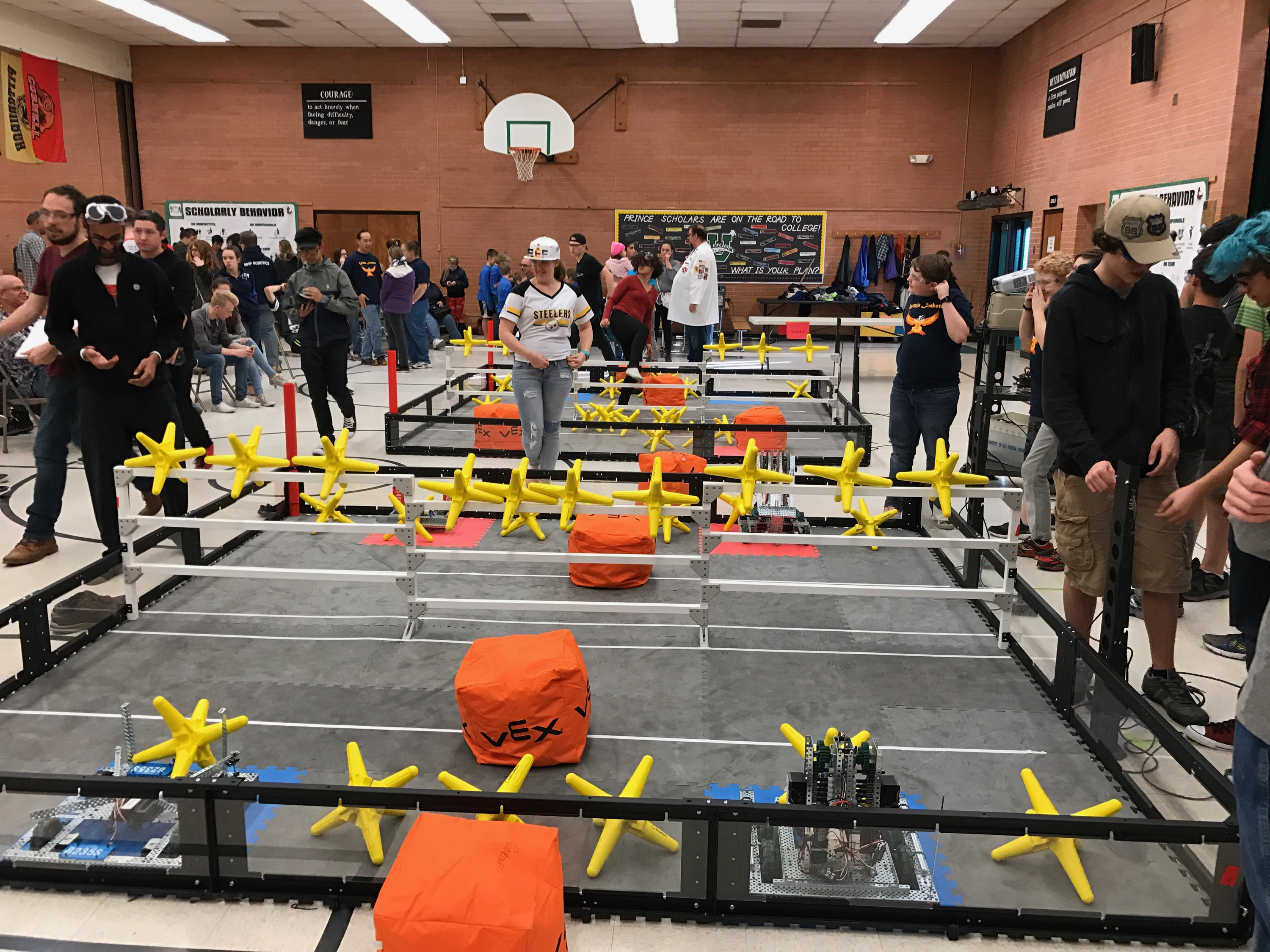 VEX Starstruck Fields